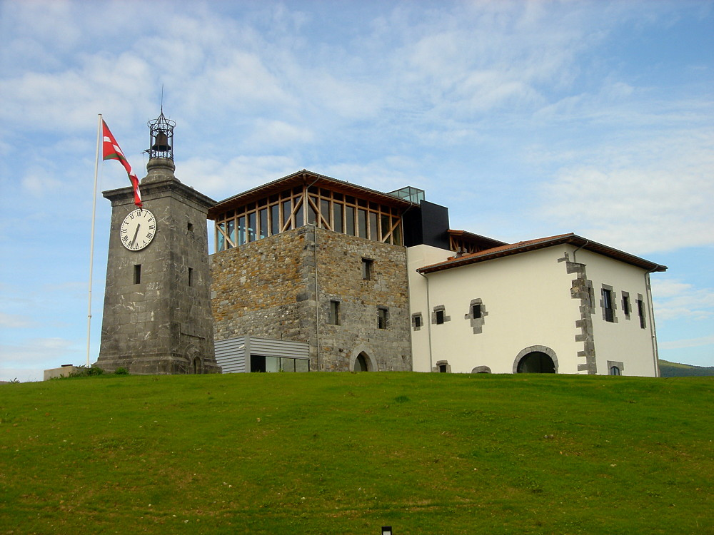 Madariaga tower (Busturia), biodiversity observatory of Urdaibai